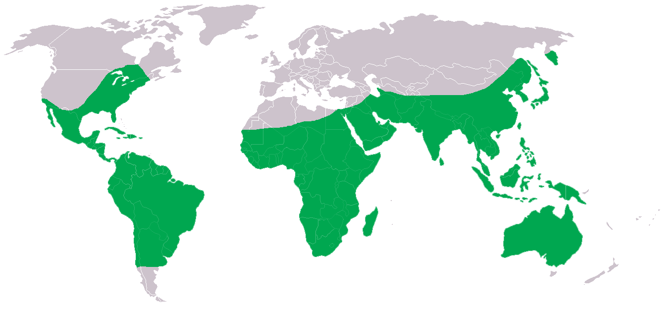 Distribution of Pantala flavescens